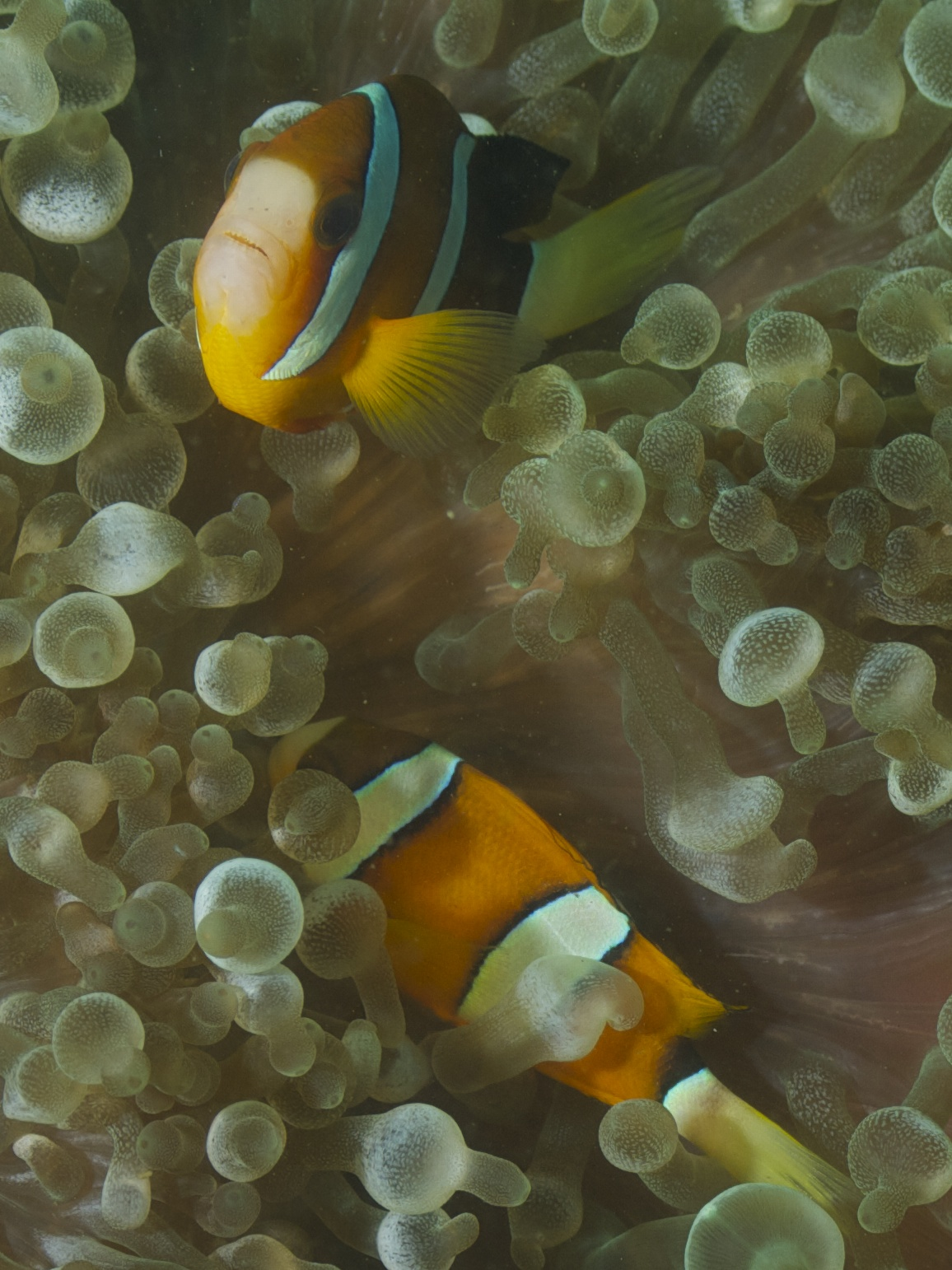 Amphiprion clarkii.